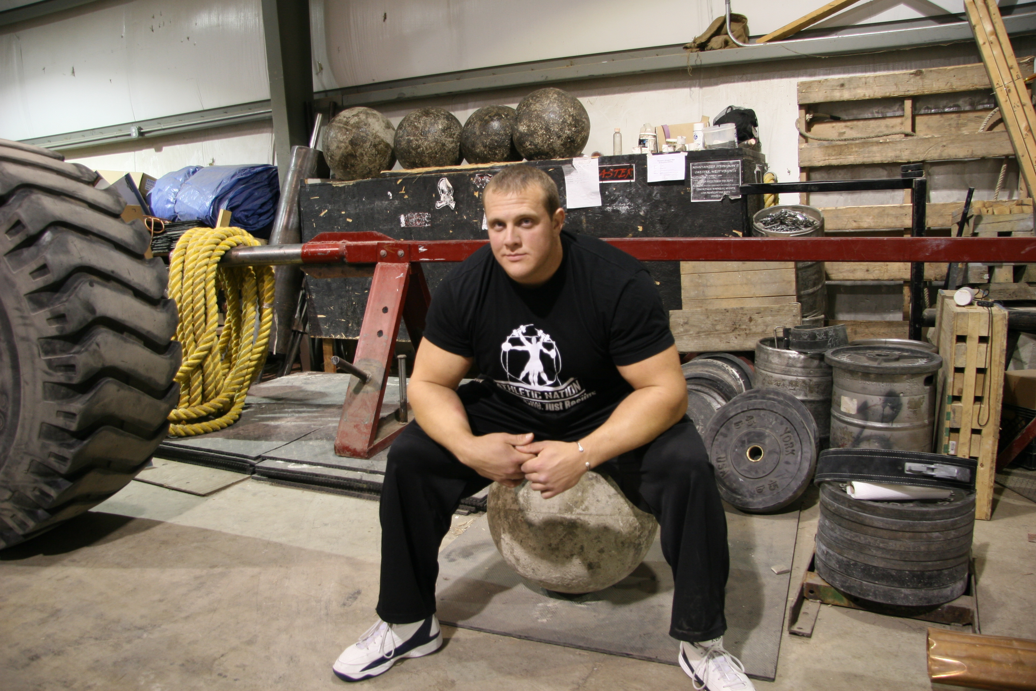 Travis Ortmayer